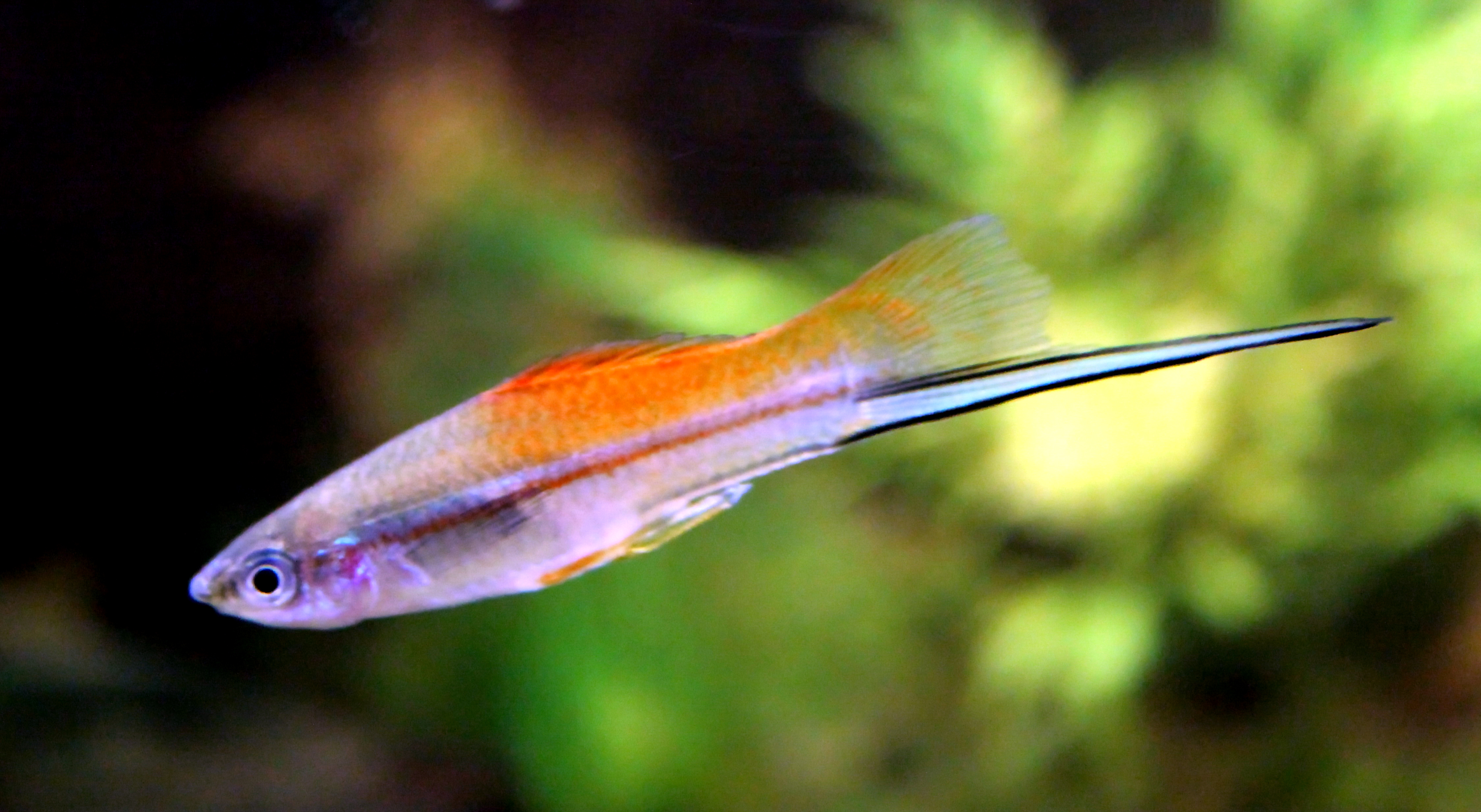 Xiphophorus helleri